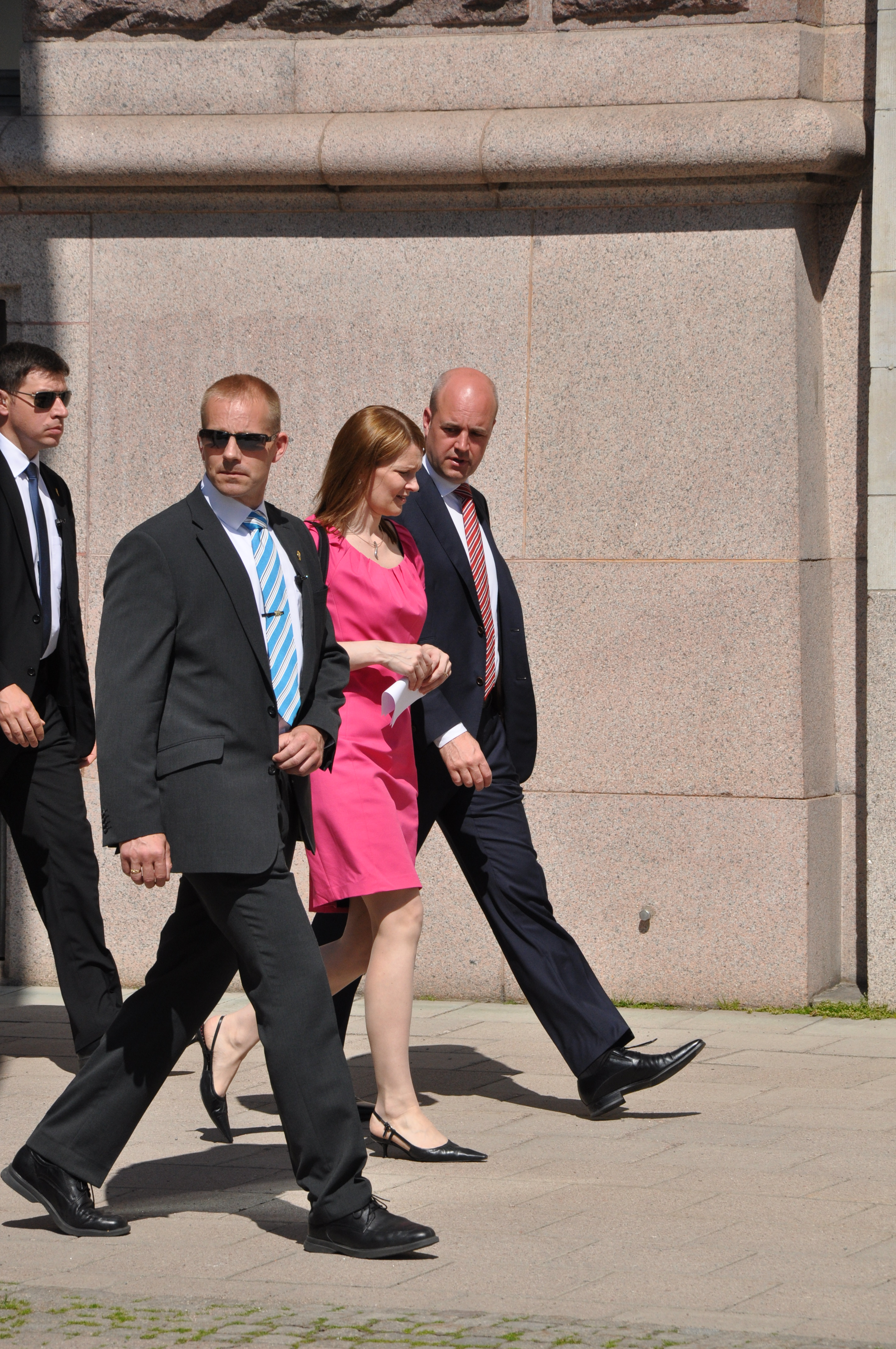 Mari Kiviniemi and Fredrik Reinfeldt taking a foot walk, from Rosenbad to the ministers apartment, in the summer weather